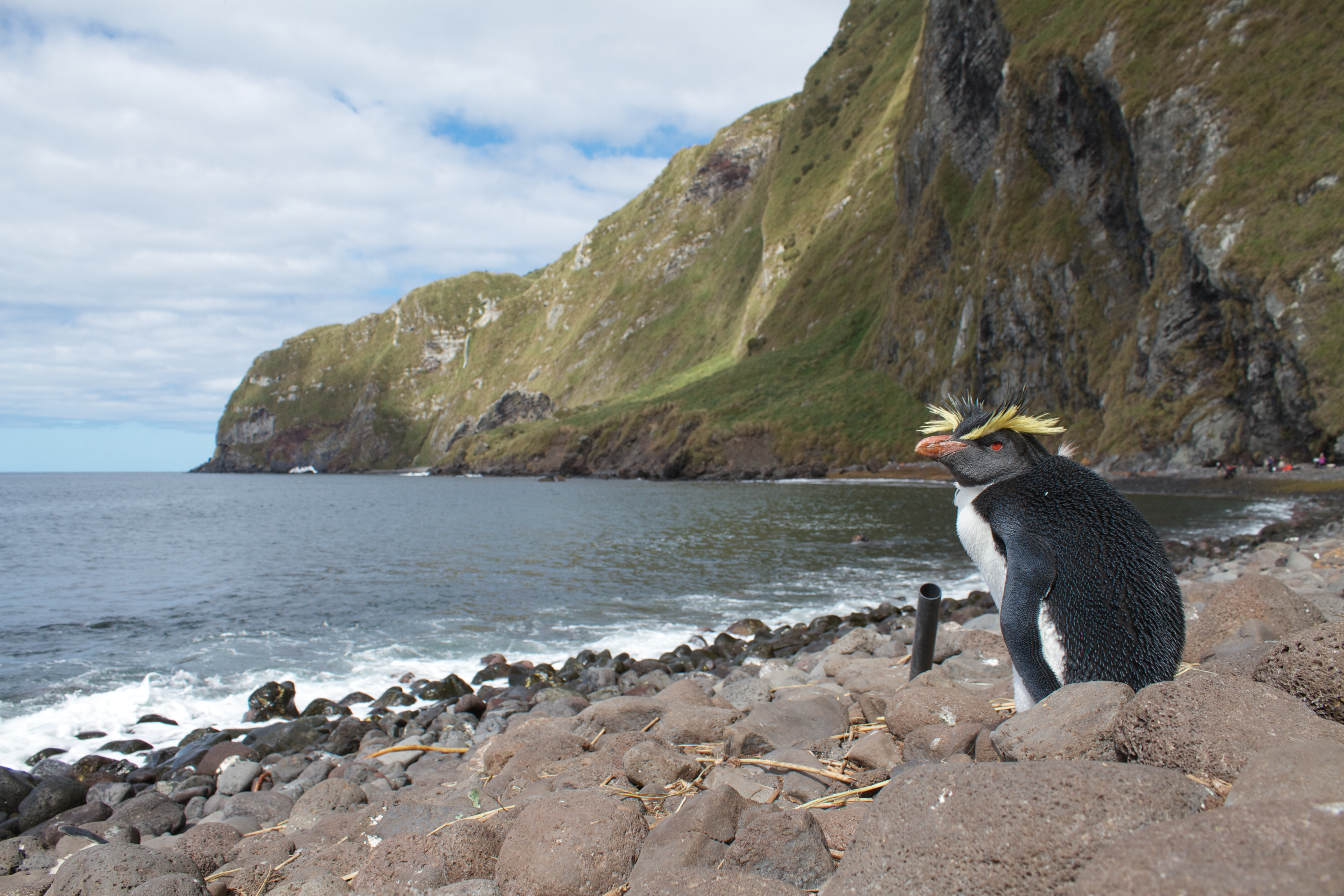 Northern Rockhopper Penguin on Inaccessible island